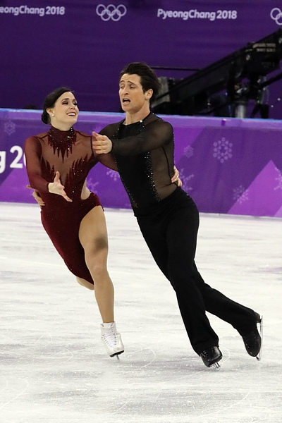 Tessa Virtue and Scott Moir at the 2018 Winter Olympic Games in PyeongChang